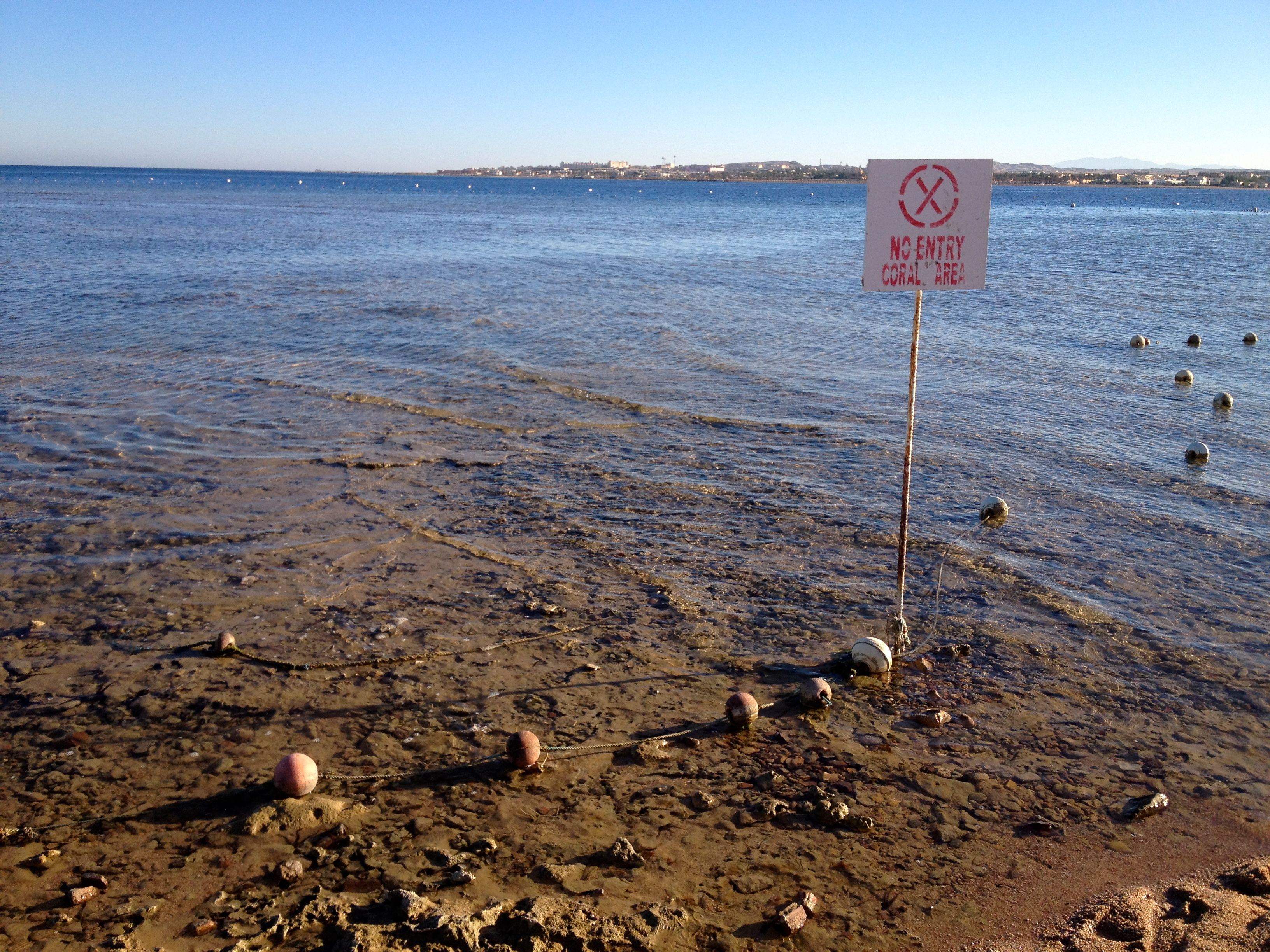 "No entry coral area" sign on Makadi Bay coast